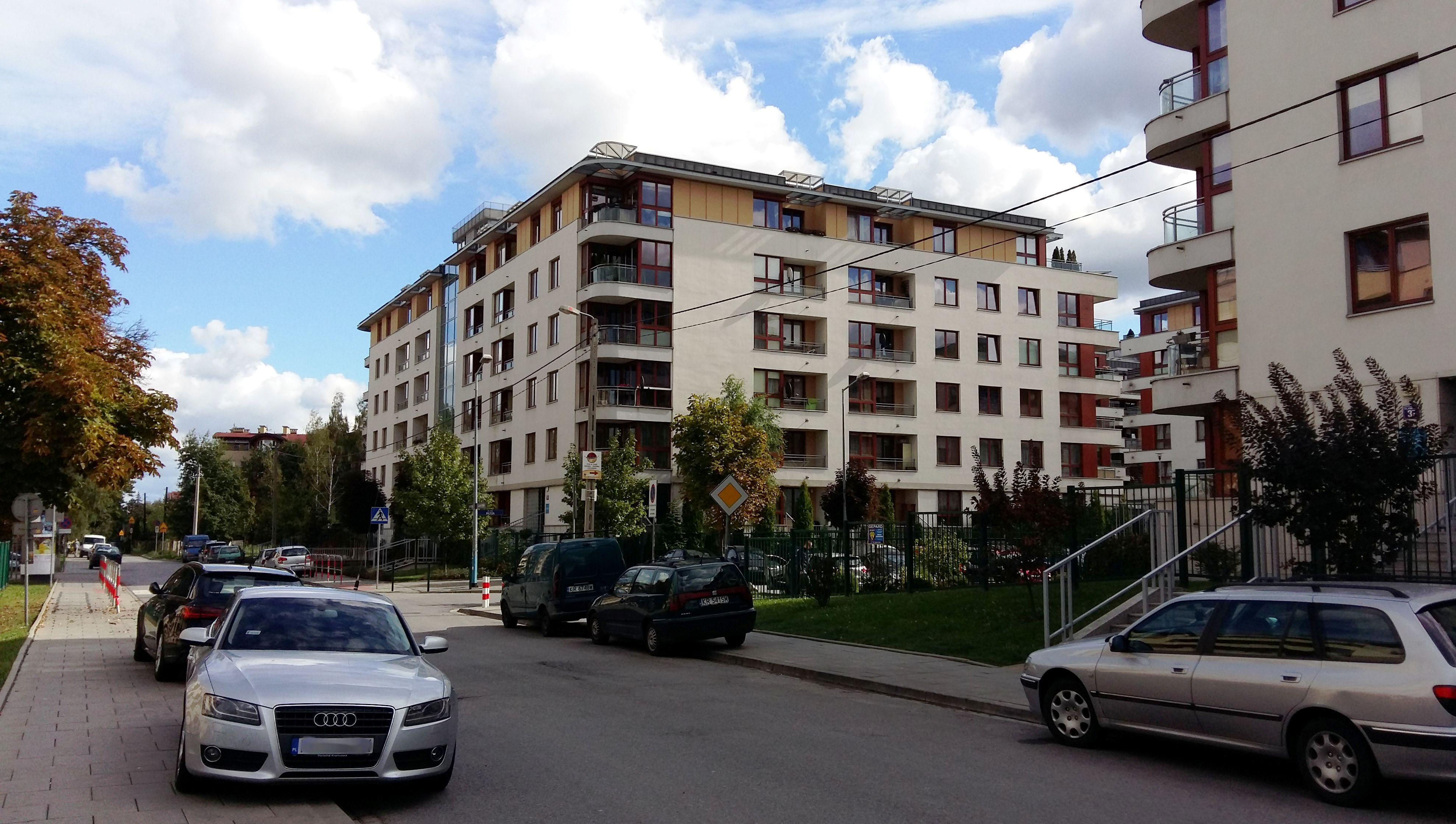 Osiedle Europejskie - buildings from 2010s, Ruczaj, VIII Dębniki, Kraków, Poland